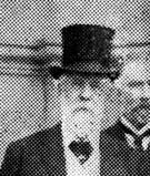 Colonel William Fraser, 7th Mayor of Thames.